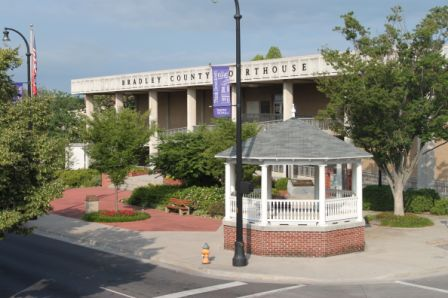 A beautiful view of the Bradley County Courthouse.